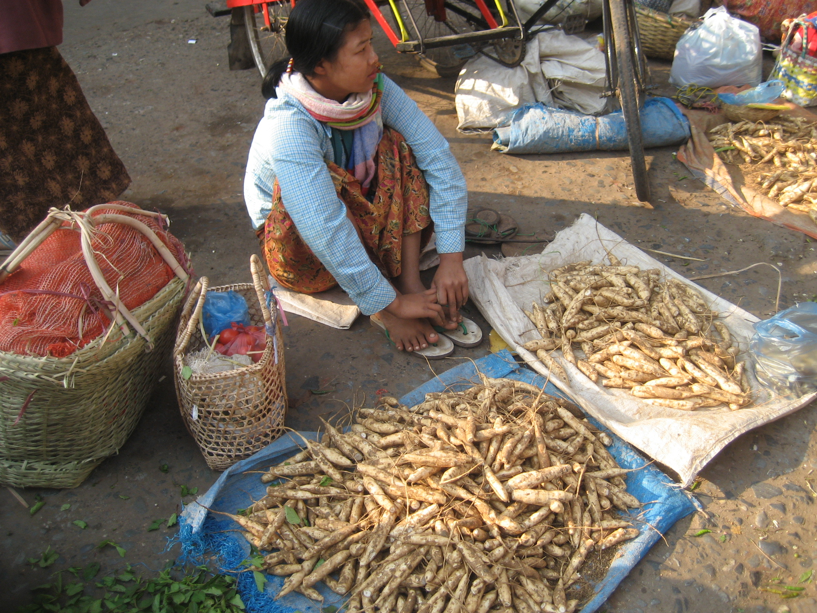 Roots of the Winged bean, in Mandalay, Myanmar